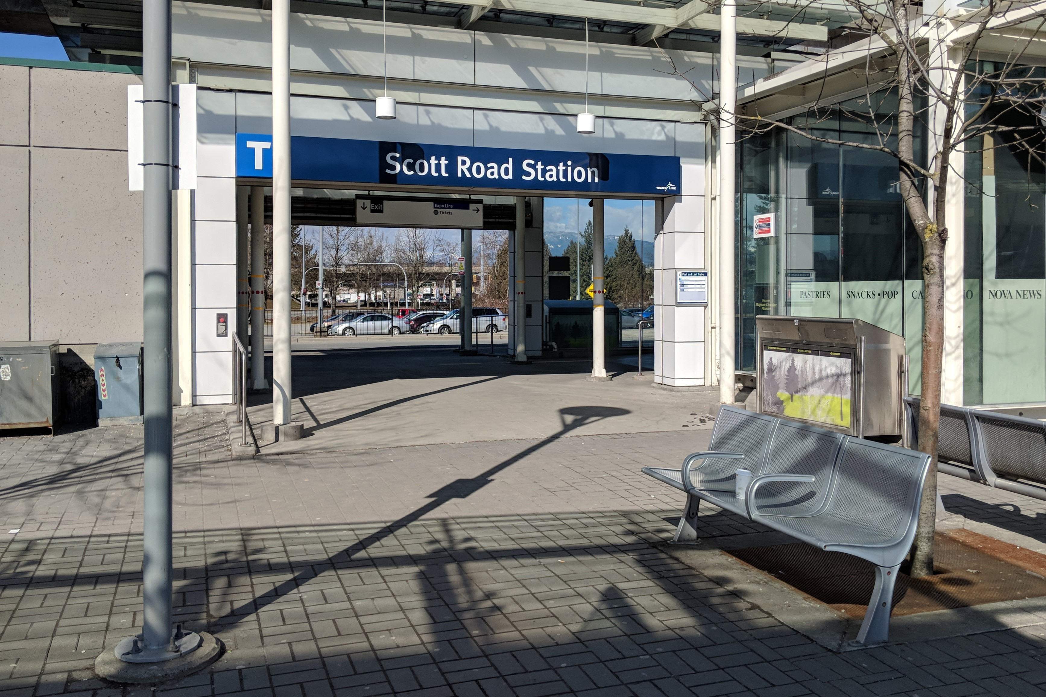 Scott Road's west entrance from the south. This entrance is adjacent to the stations bus loop.